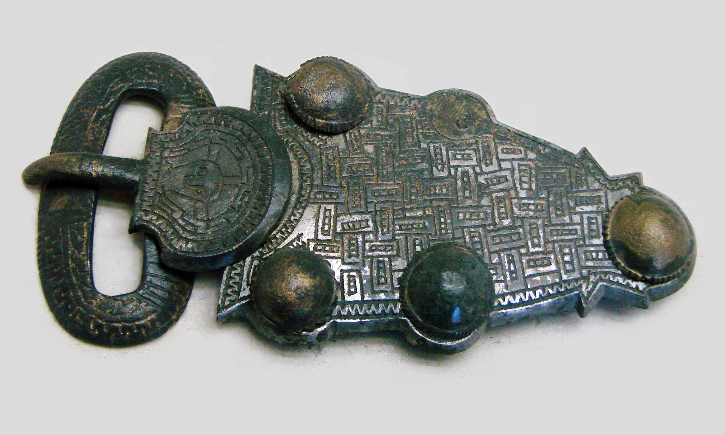 Merovingian buckle, 7th century; bronze plated with tin, decorated with a basketwork pattern and the Christ's head.Musée Saint-Remi, Reims, France.